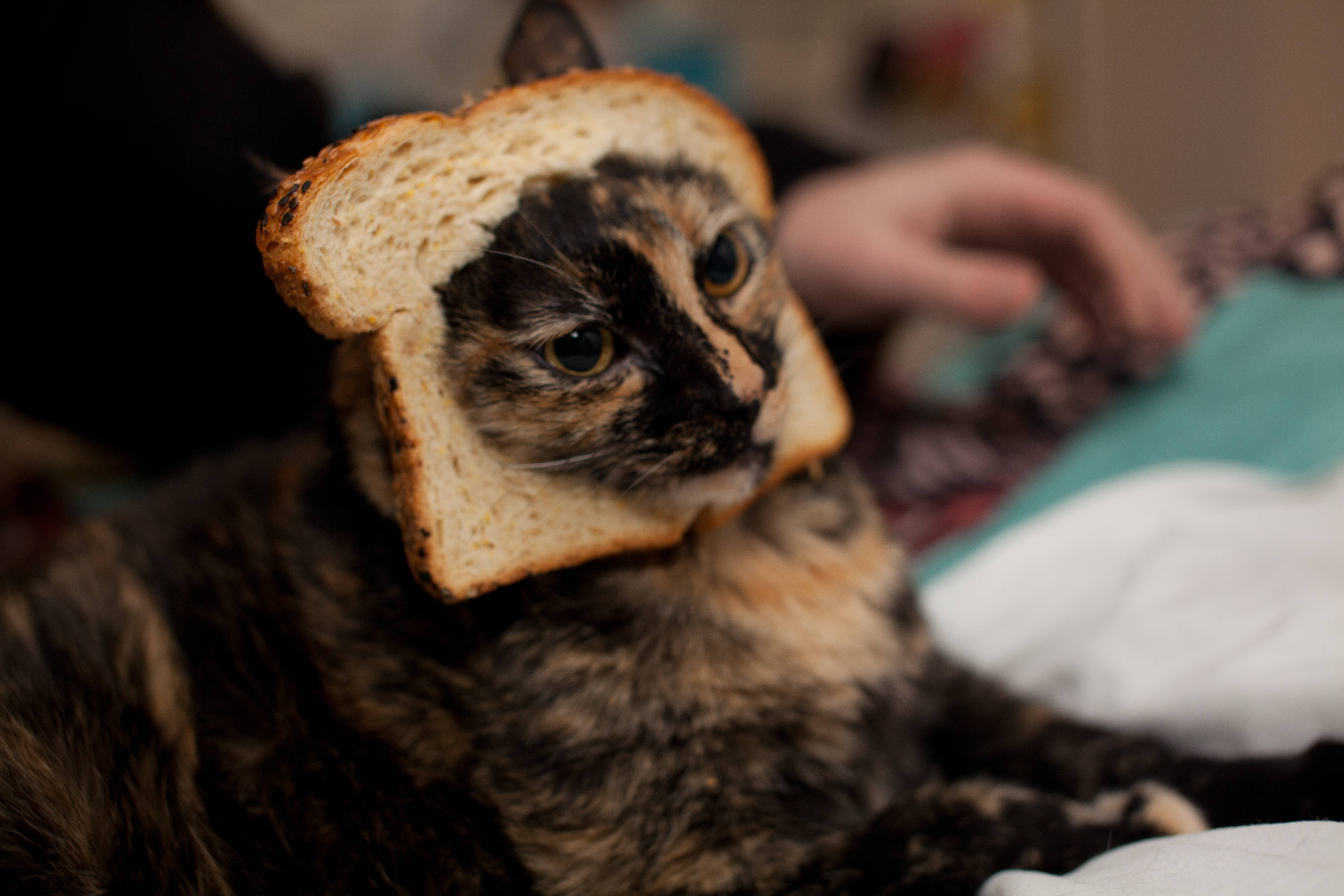 Cat wearing a slice of bread around its face